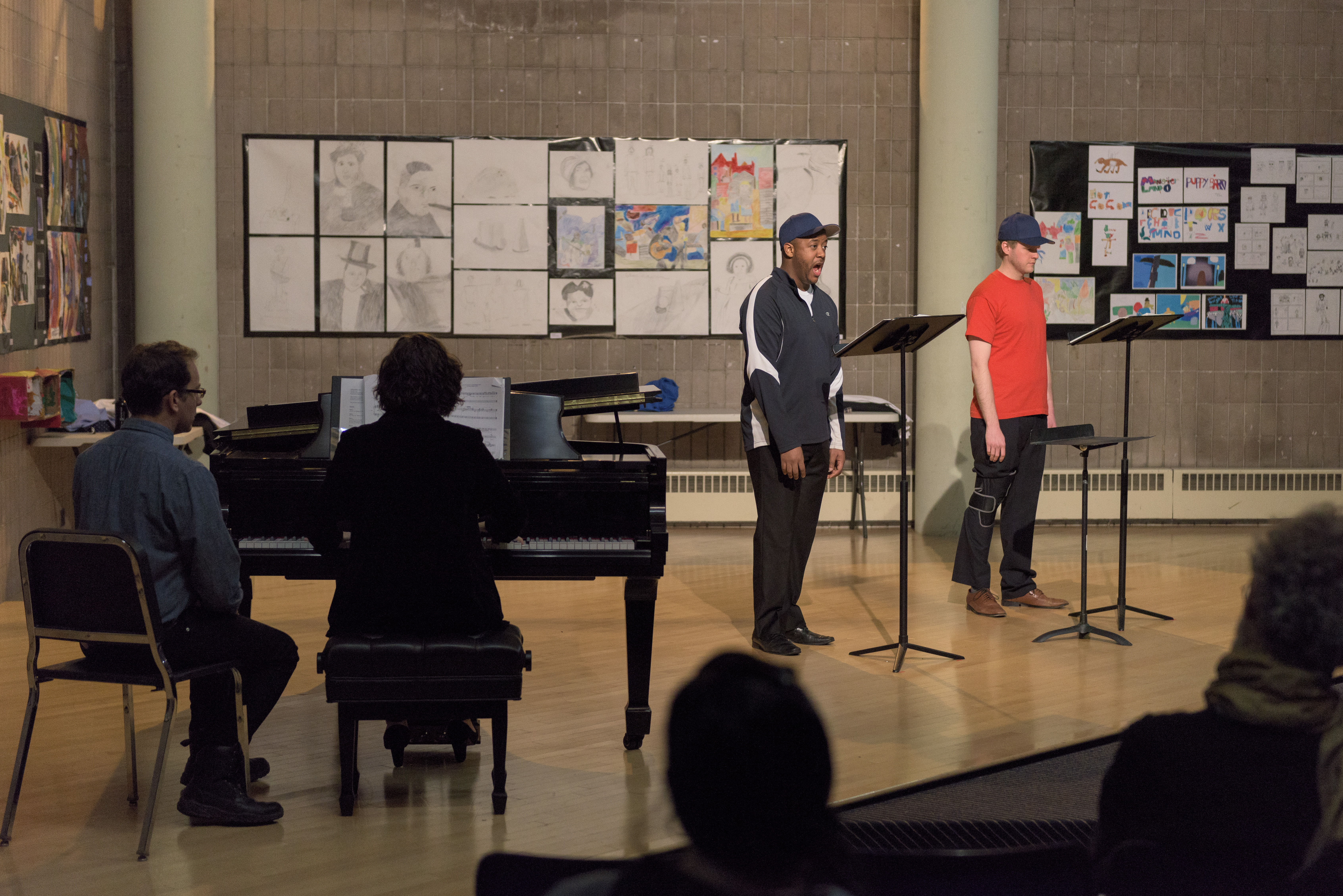 February 5, 2015 Harlem School of the Arts New York, NY Music by Sidney Marquez Boquiren; libretto by Daniel Neer. Photo by Steven Pisano.